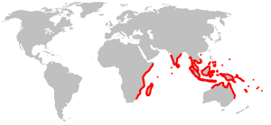 Lumnitzera range map